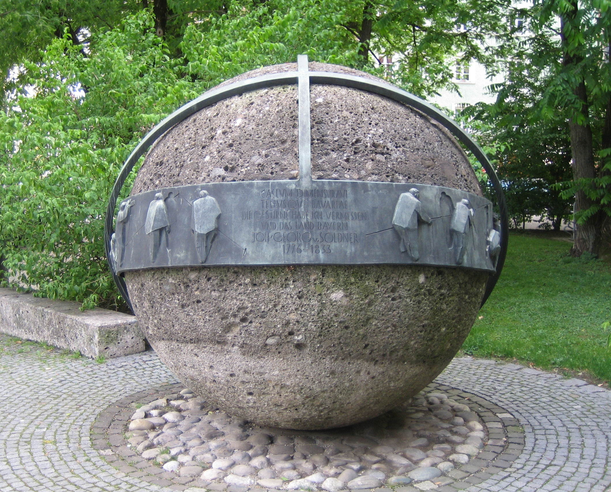 Memorial for Johann Georg von Soldner in in front of the Bavarian State Office for Survey and Geoinformation in Munich